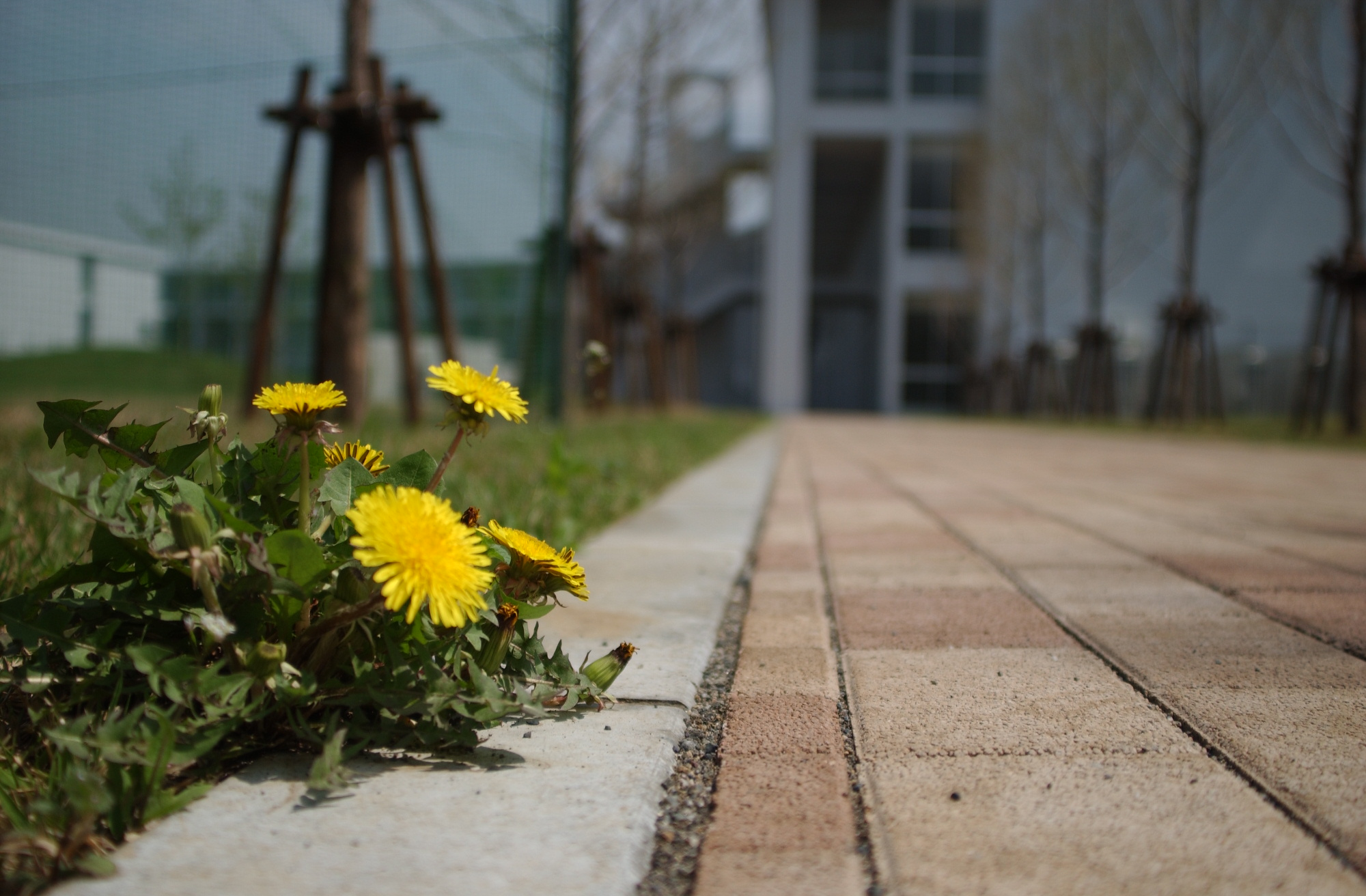 Dandelion at the Ohkawa Gakuen Medical & Welfare College